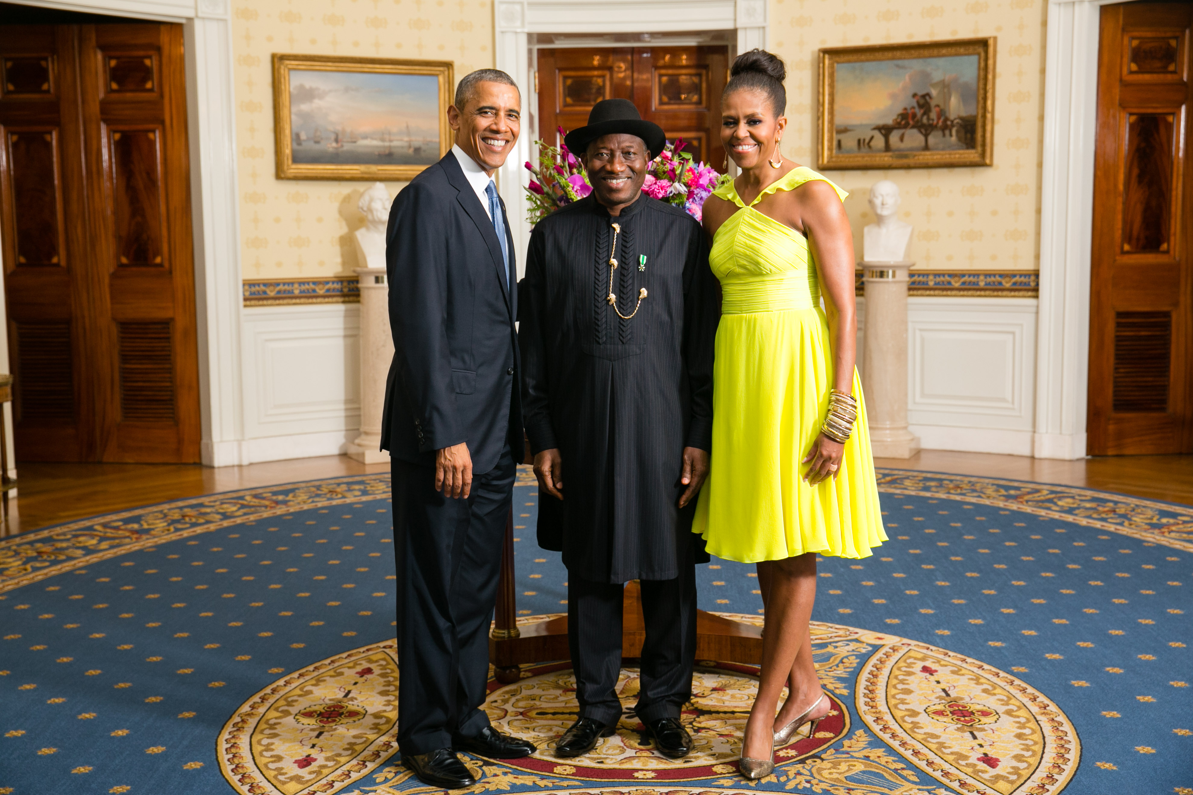 President Barack Obama and First Lady Michelle Obama greet His Excellency Goodluck Ebele Jonathan, Former President of the Federal Republic of Nigeria, in the Blue Room during a U.S.-Africa Leaders Summit dinner at the White House, Aug. 5, 2014. [Official White House Photo by Amanda Lucidon/ This official White House photograph is in the public domain from a copyright perspective, so while restrictions such as personality or privacy rights may apply, in general, manipulations are allowed.]